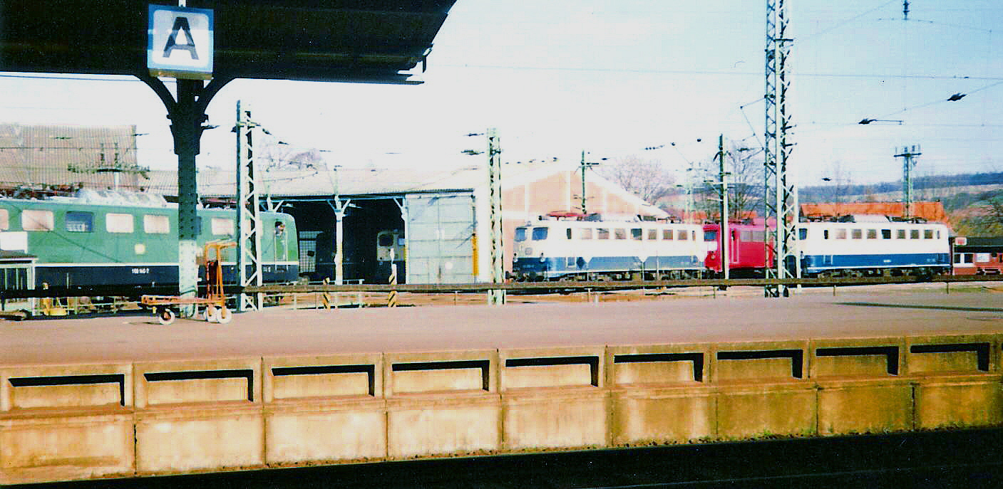 German "Einheitslokomotiven" (general purpose locomotives, literally unit locomotives) waiting in front of the Bebra roundhouse for their next service.